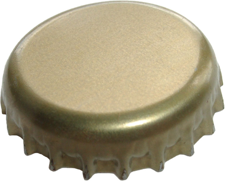 Bottlecap